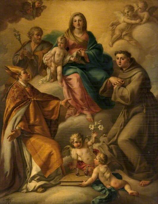 Fischetti, Fedele; The Holy Family with Saints Januarius and Anthony of Padua; Glasgow Museums; artuk